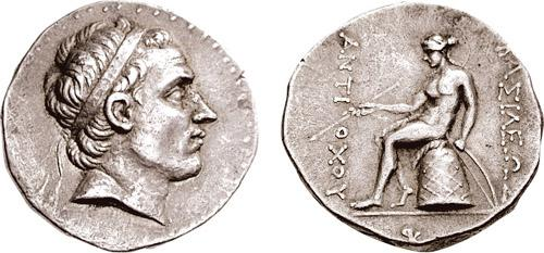 Antiochus III the Great (ca. 223 BC – 187 BC), king of the Seleucid Empire Antiochos III, the Great, AR Tetradrachm. Uncertain mint in Mesopotamia, struck after 197 BC. Diademed head right / BASILEWS ANTIOCOU, Apollo seated left on omphalos, nude but for slight drapery on right thigh, holding arrow in right hand, left hand resting on bow; monogram in exergue. Newell 855b var.